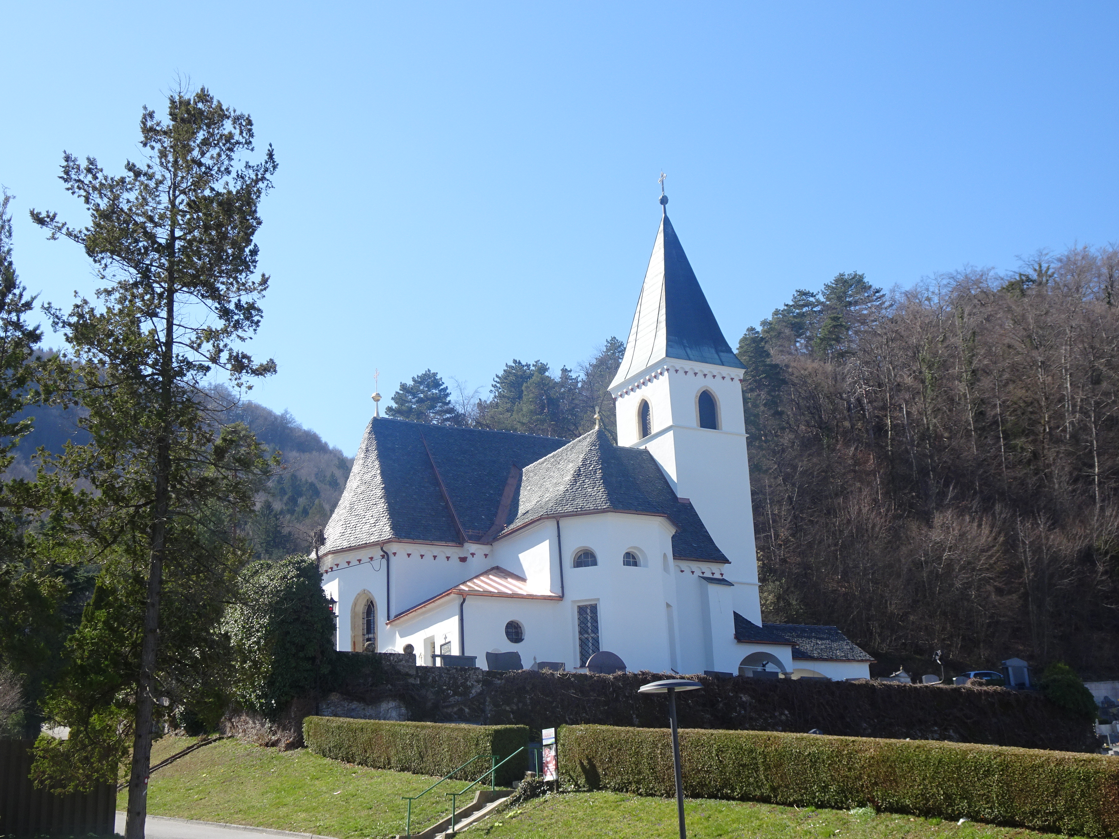 st. Anna Church, Slovenske Konjice, Slovenia This media shows a cultural heritage object of Slovenia with the EŠD number: 3320 The usage of reproductions of the cultural monuments No. 3380 for commercial purposes is restricted by the Slovenian Cultural Heritage Protection Act, which requires a consensus of the owner of the monument for any use of image and name of the monument (article 44). Wikimedia Commons is not required to comply as it is hosted in the United States of America. Users who are citizens of Slovenia are warned that they are solely responsible for any possible violation of local laws. See our general disclaimer for more information. These restrictions are independent of the copyright status of the depicted work. The definition of a cultural monument is the following (article 3): heritage, which has been statutorily protected as a monument or entered in the inventory of an authorised museum. As much as it concerns immovable cultural heritage, the national catalog is publicly accessible at .